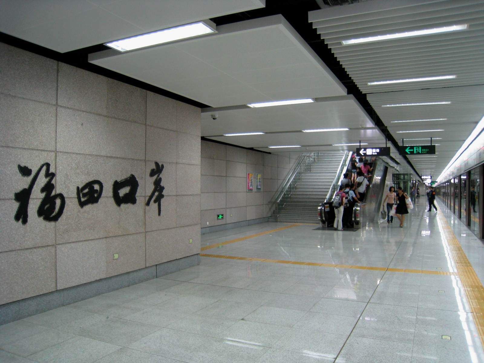 Shenzhen Metro Terminal Futiankouan Station Platform